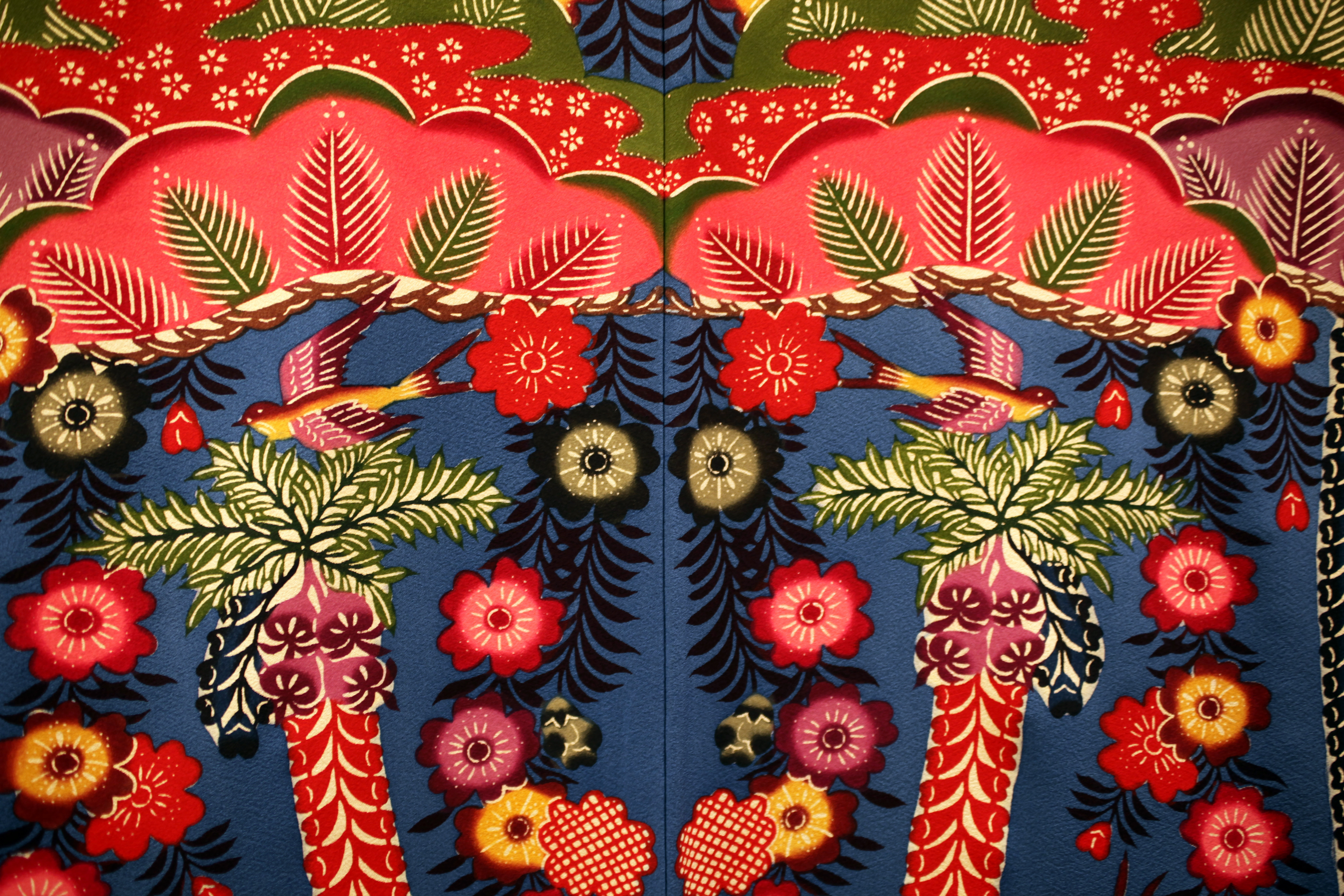 A dark blue and red bingata pattern